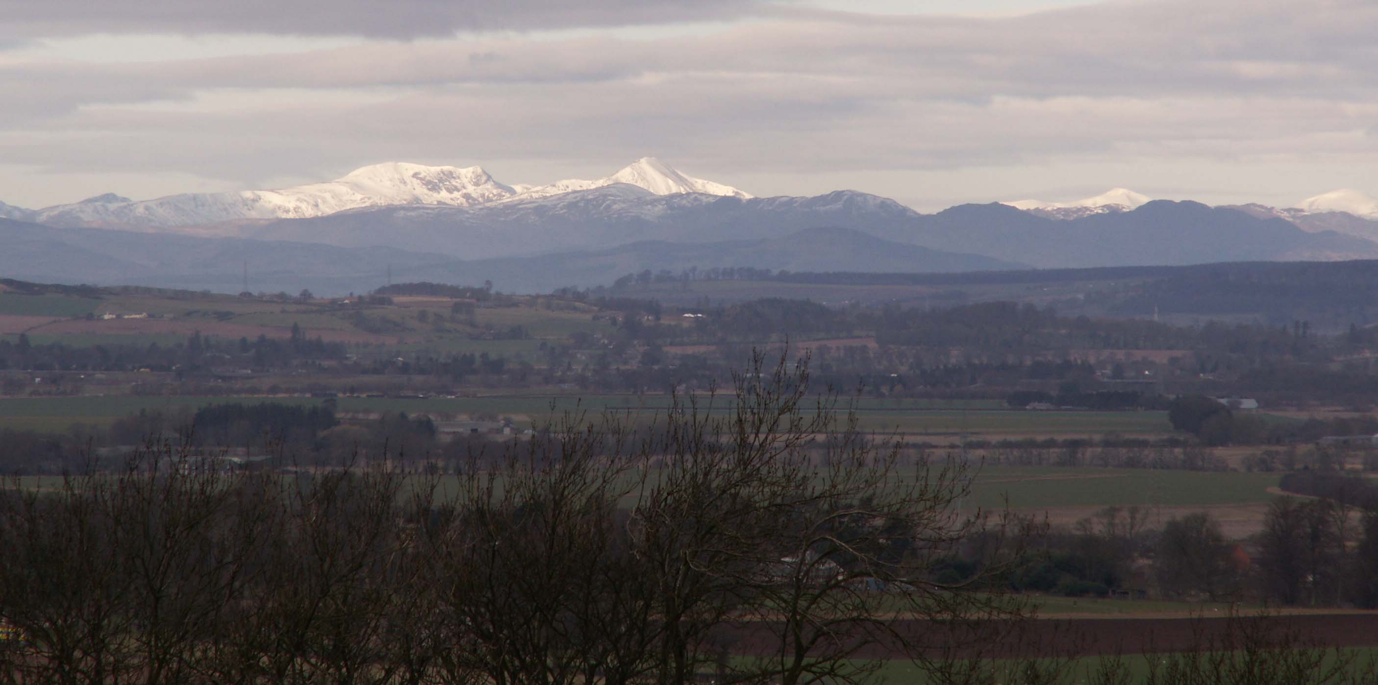 Stùc a' Chroin and Ben Vorlich seen from Newburgh, 35 miles to the east. Beyond them, on the right, Stob Binnein and Ben More can be seen. (Contrary to the "metadata", the photograph was taken in March 2008).